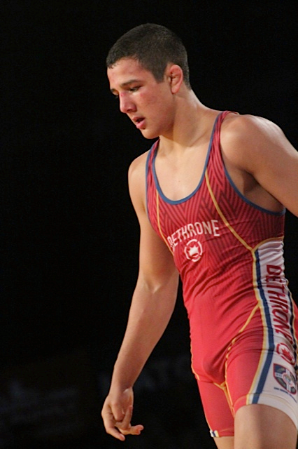 Wrestler Aaron Pico 2014